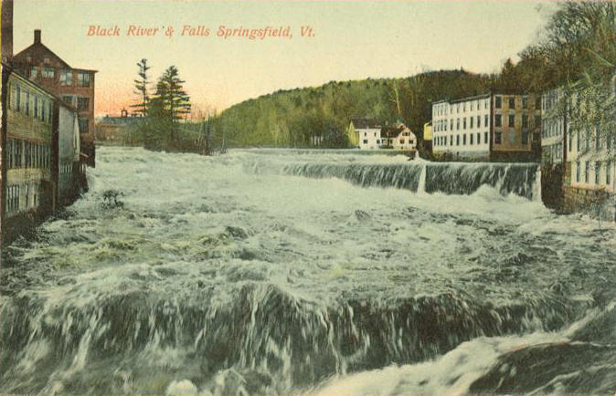 Postcard: Black River and Falls at Springfield, estimated to have been published in 1910 Description: Store Web page titled, "VT ~ SPRINGFIELD ~ Factories Beside the Falls ~ c1910". Web page states, "Not Mailed" Source: eBay store Web page